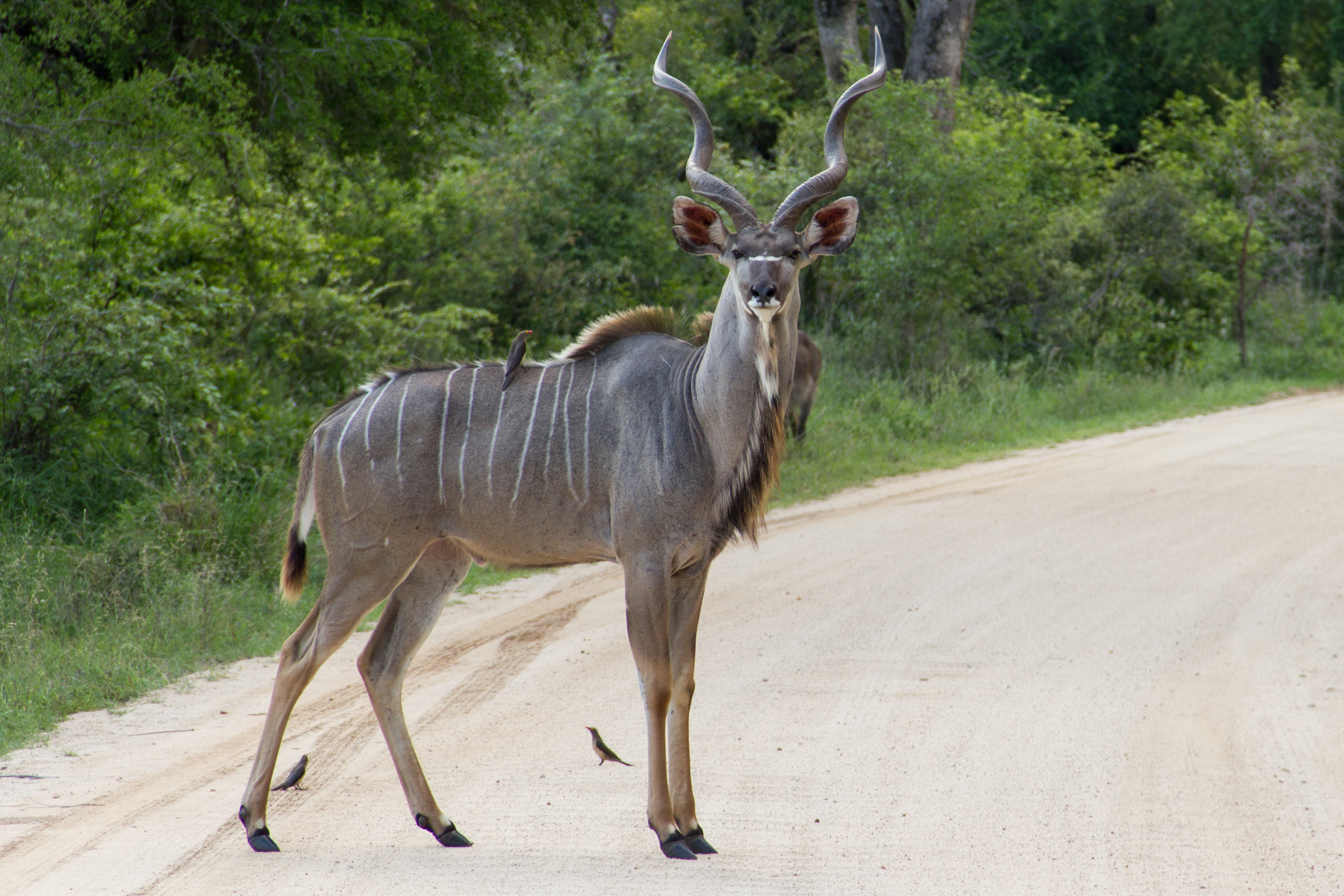 Male Kudu at Kruger National Park, South Afrika